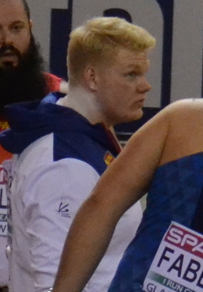 Mens Shot Put